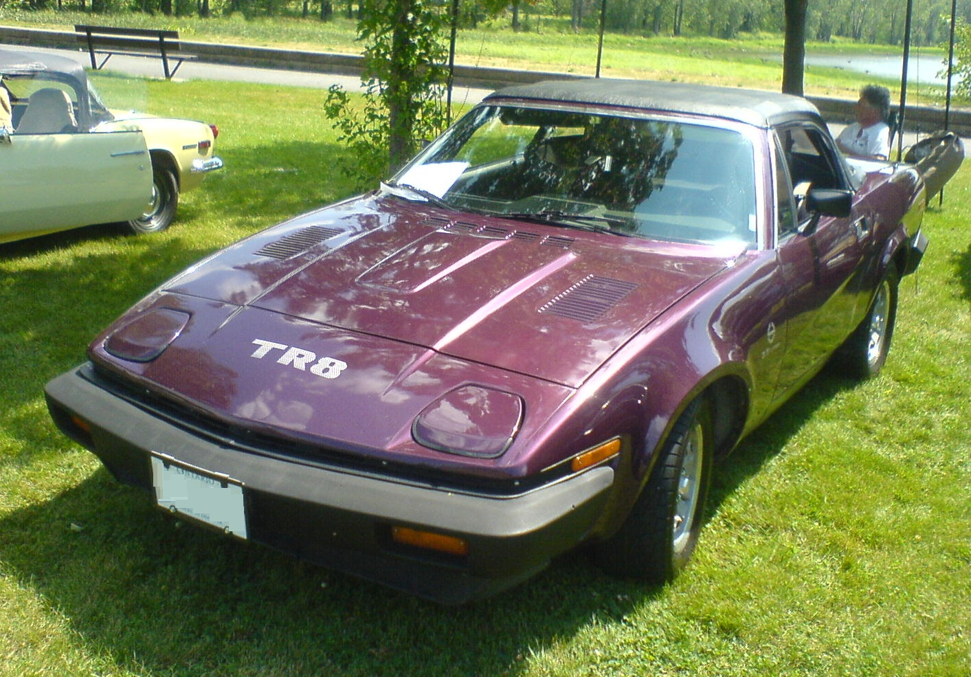 1981 Triumph TR8 photographed in Ottawa, Ontario, Canada at the 2010 Ottawa British Auto Show.